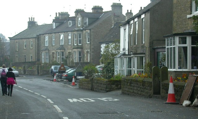 Cotherstone. B6277 through the village of Cotherstone, taken from NZ011197 looking south.